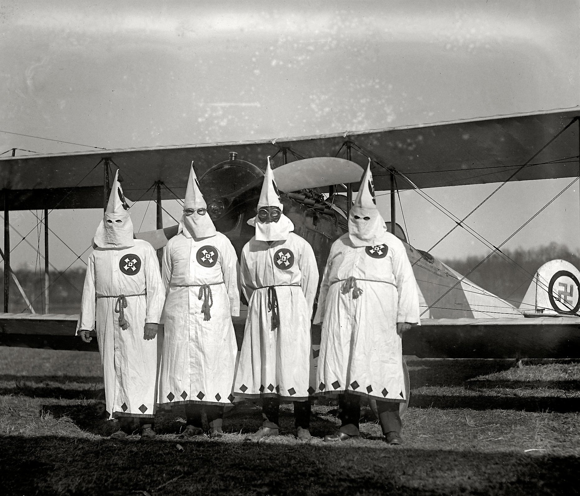 March 17, 1922. Members of the Ku-Klux-Klan about to take off with literature which was scattered over the Washington’s Virginia suburbs during a Klan parade.